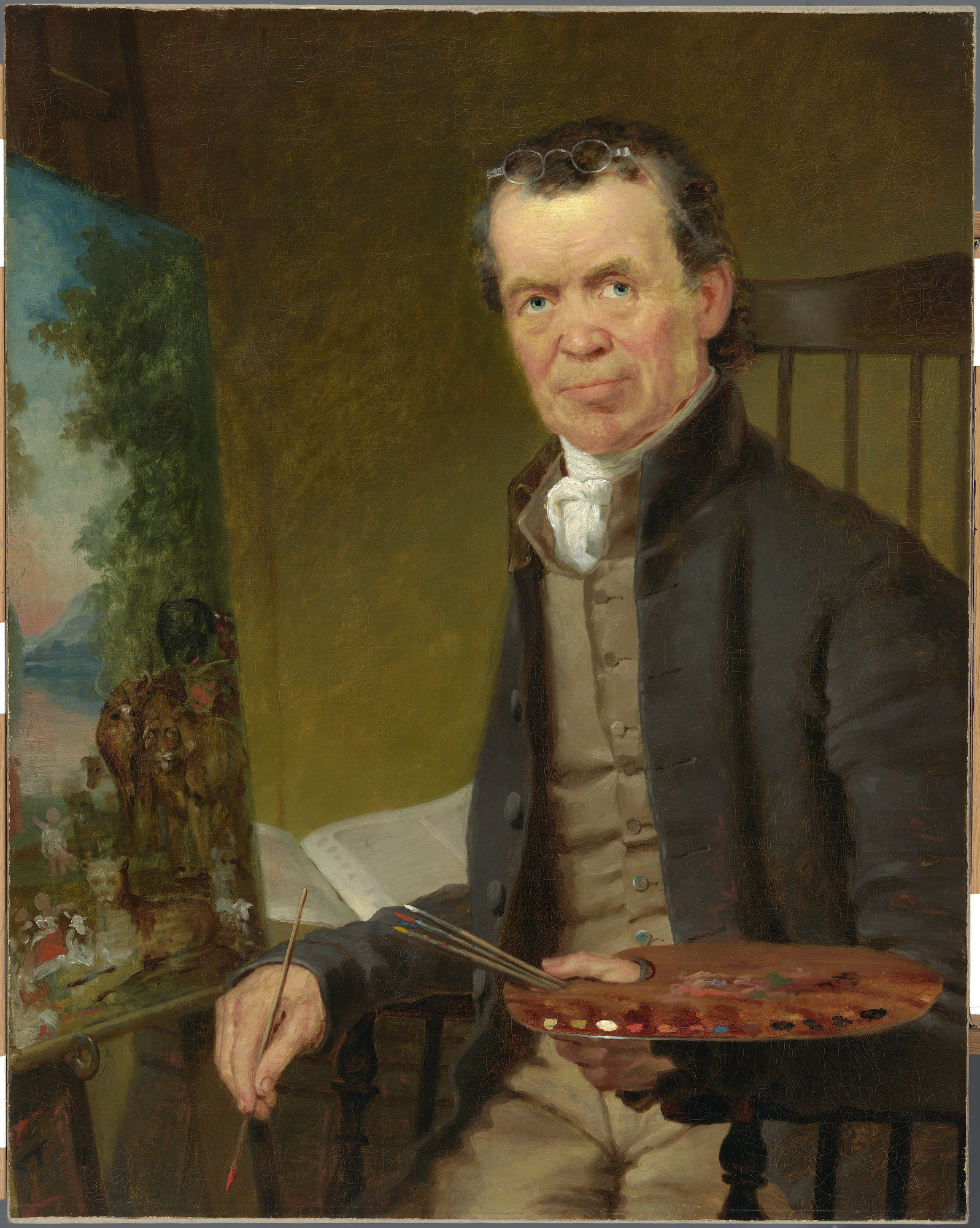 Thomas Hicks, 18 Oct 1823 - 8 Oct 1890 painting Edward Hicks, 4 Apr 1780 - 23 Aug 1849